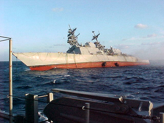 The final moments of the USS CARON. She was sunk December 4th, 2002, 75nm S. of Roosevelt Roads, Puerto Rico during explosive test. She was intended to survive these tests and scheduled to be sunk as a target later in 2003, but secondary explosions caused her to sink.